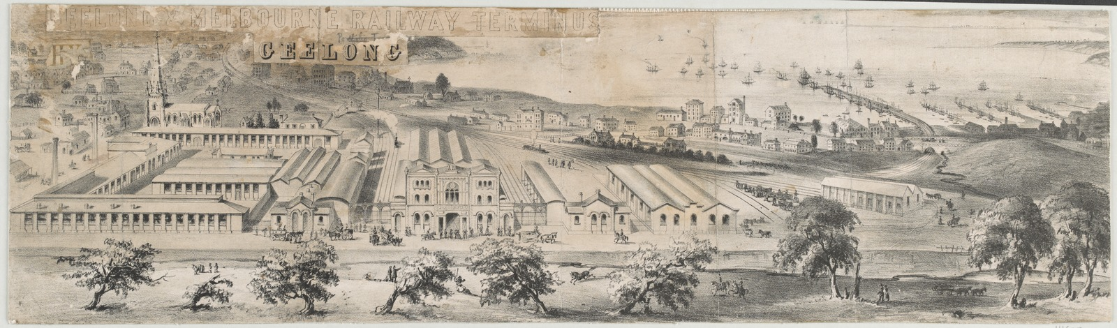 Elevated view of the Terminus Pier and warehouses of the Geelong and Melbourne Railway Company, with view of the Corio Bay with piers, sailing ships and surrounding area.